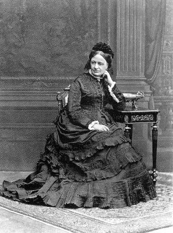 Archduchess Maria Theresa of Austria-Este (1817–1886), wife of Henri, comte de Chambord